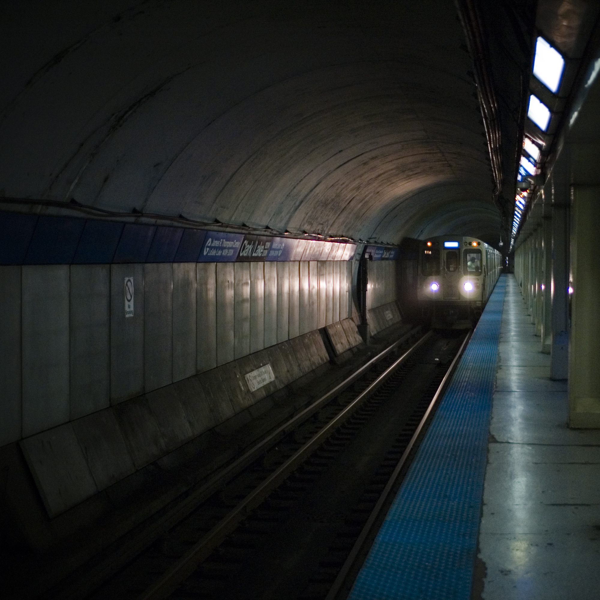 Blue Line subway platform at Clark/Lake station in the Chicago Loop